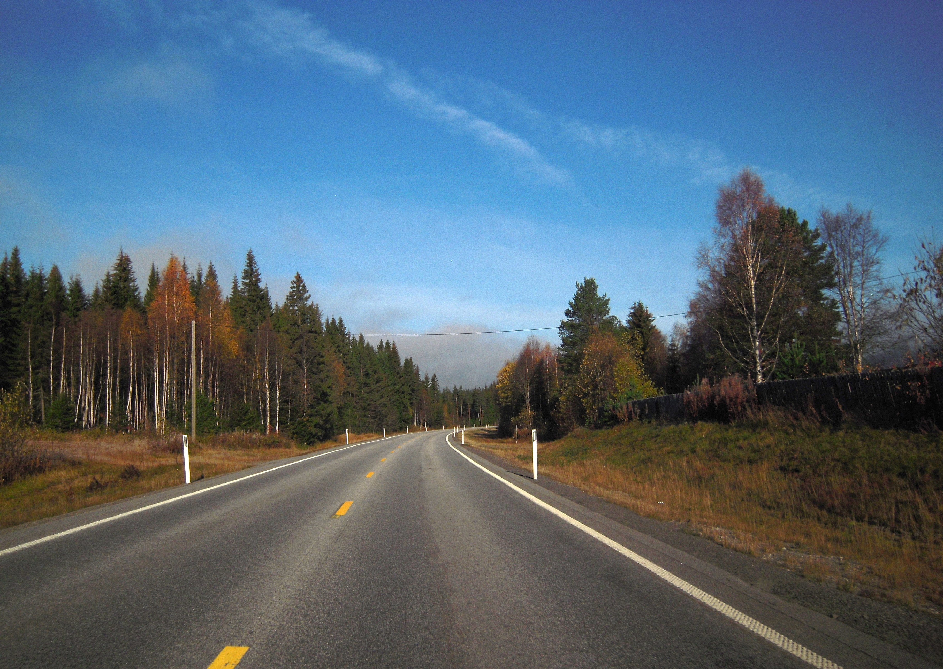 Stor-Elvdal, Norway